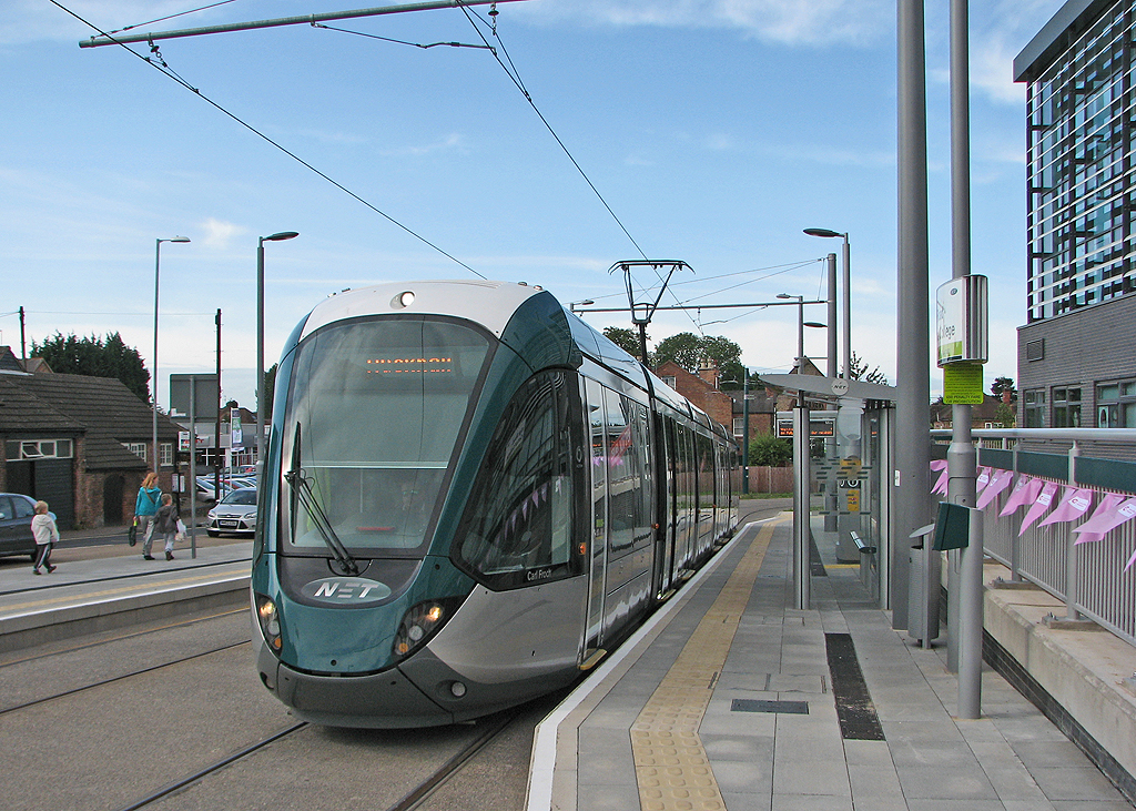 Chilwell: High Road Central College tram stop on opening day. A Hucknall-bound tram - named after the Nottingham boxer Carl Froch - waits outside Central College on the first morning of services on the two new tram routes.